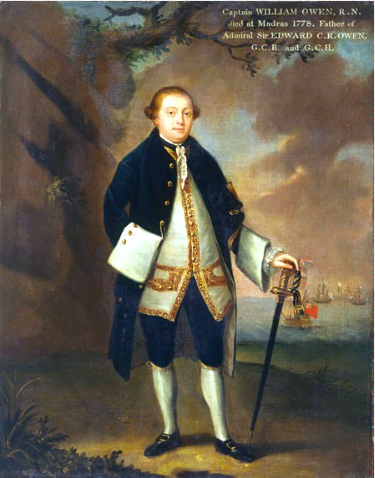 Capt. William Owen, R.N.